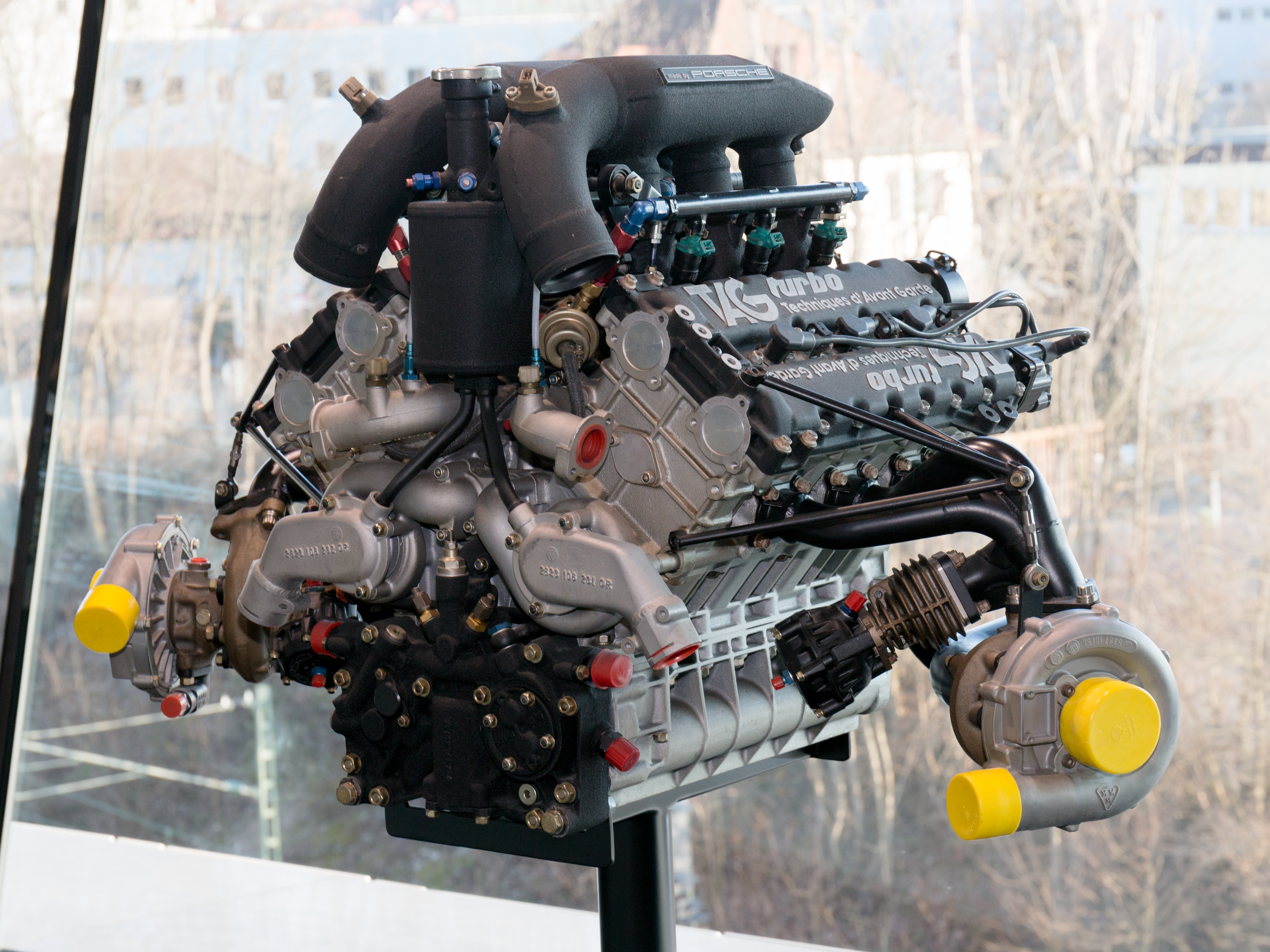 TAG TTE PO1 Formula One engine (TAG-Porsche engine)